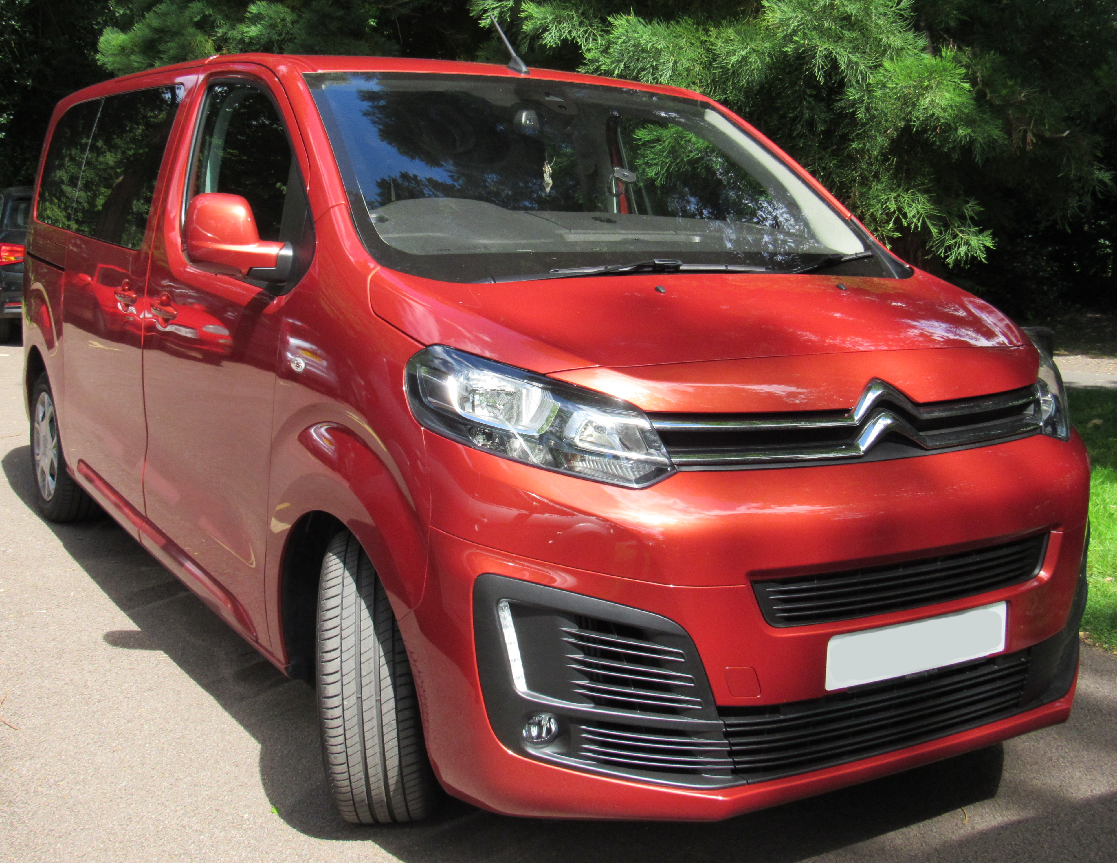 2017 Citroen Spacetourer (K01) 1.6 Front Taken at Warwick Castle